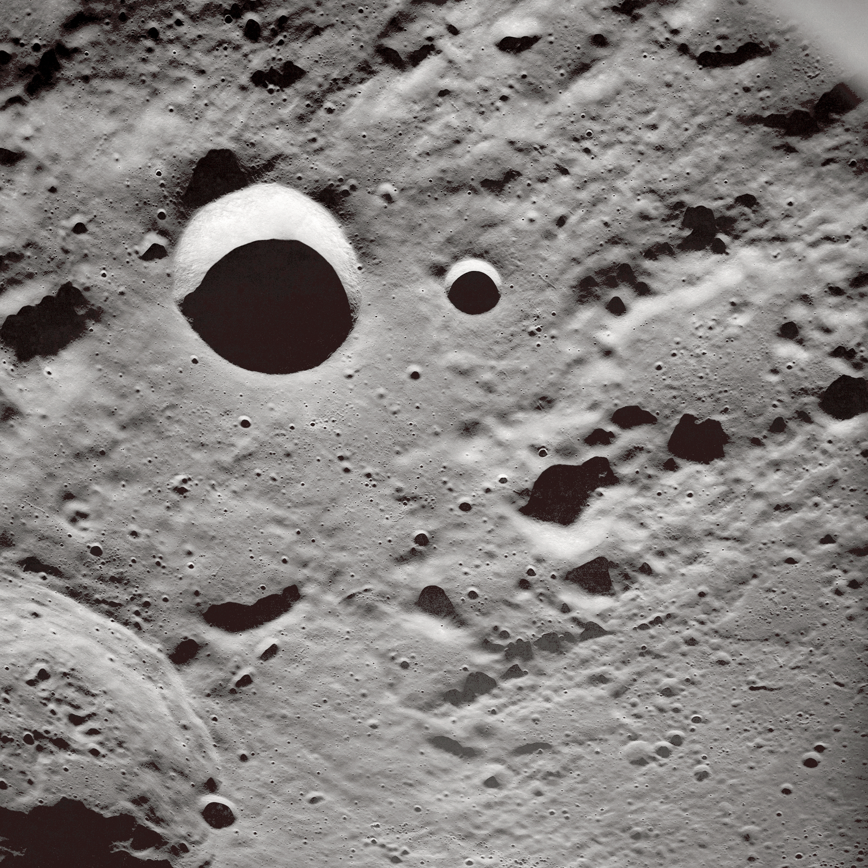 This oblique view of the Moon's surface was photographed by the Apollo 10 astronauts in May of 1969. Center point coordinates are located at 16 degrees, 2 minutes east longitude and 0 degrees, 3 minutes north latitude. One of the Apollo 10 astronauts attached a 250mm lens and aimed a handheld 70mm camera at the surface from lunar orbit for a series of pictures in this area.